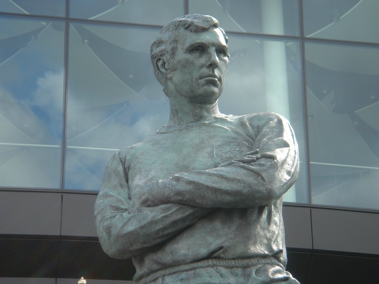 The statue of Bobby Moore at the recently refurbished Wembley Stadium - 2007